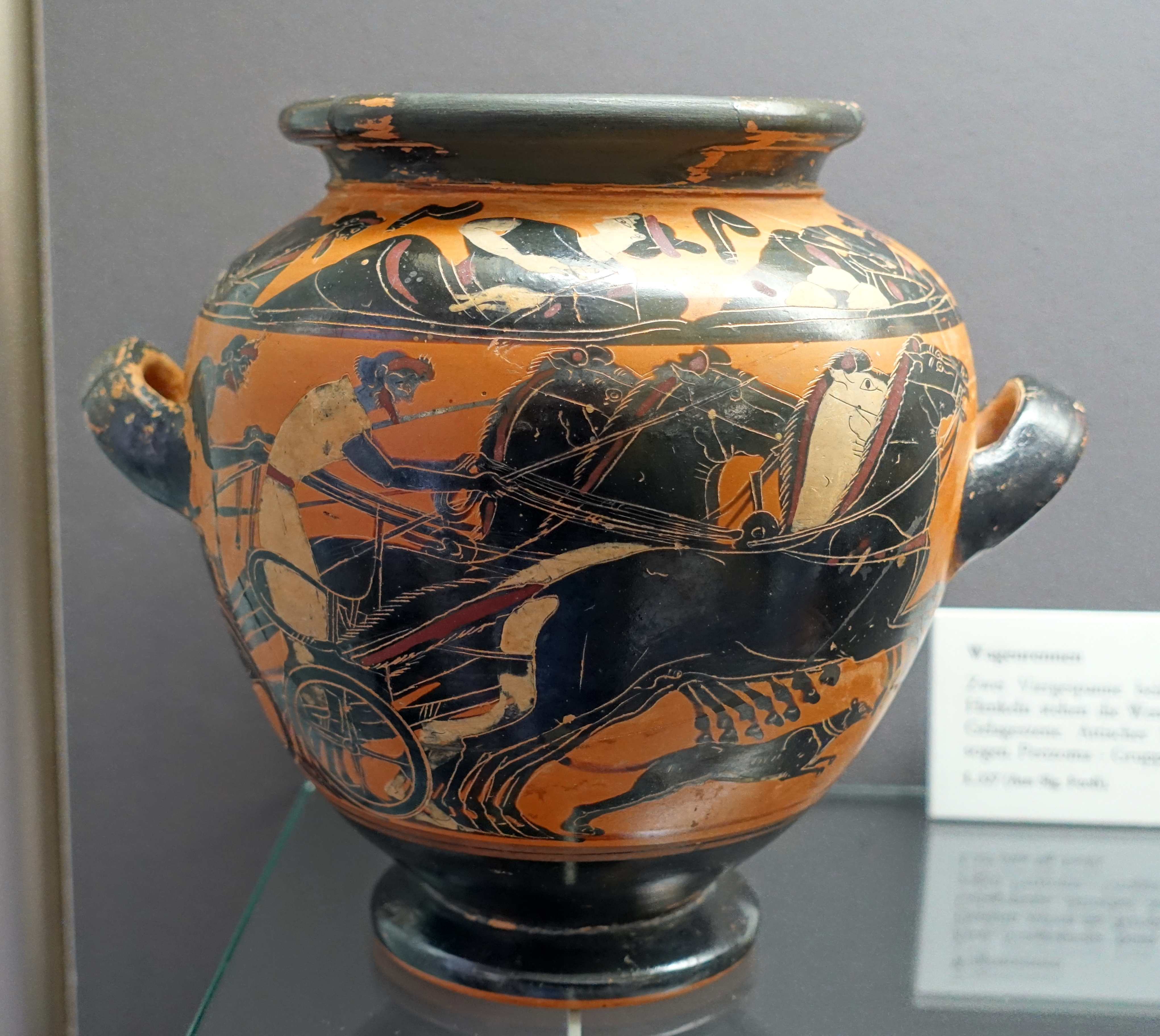 Exhibit in the Martin von Wagner Museum - Würzburg, Germany.